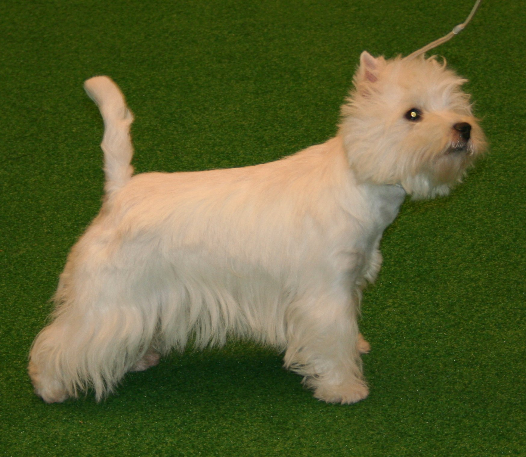 West highland white terier during dogs show in Katowice, Poland